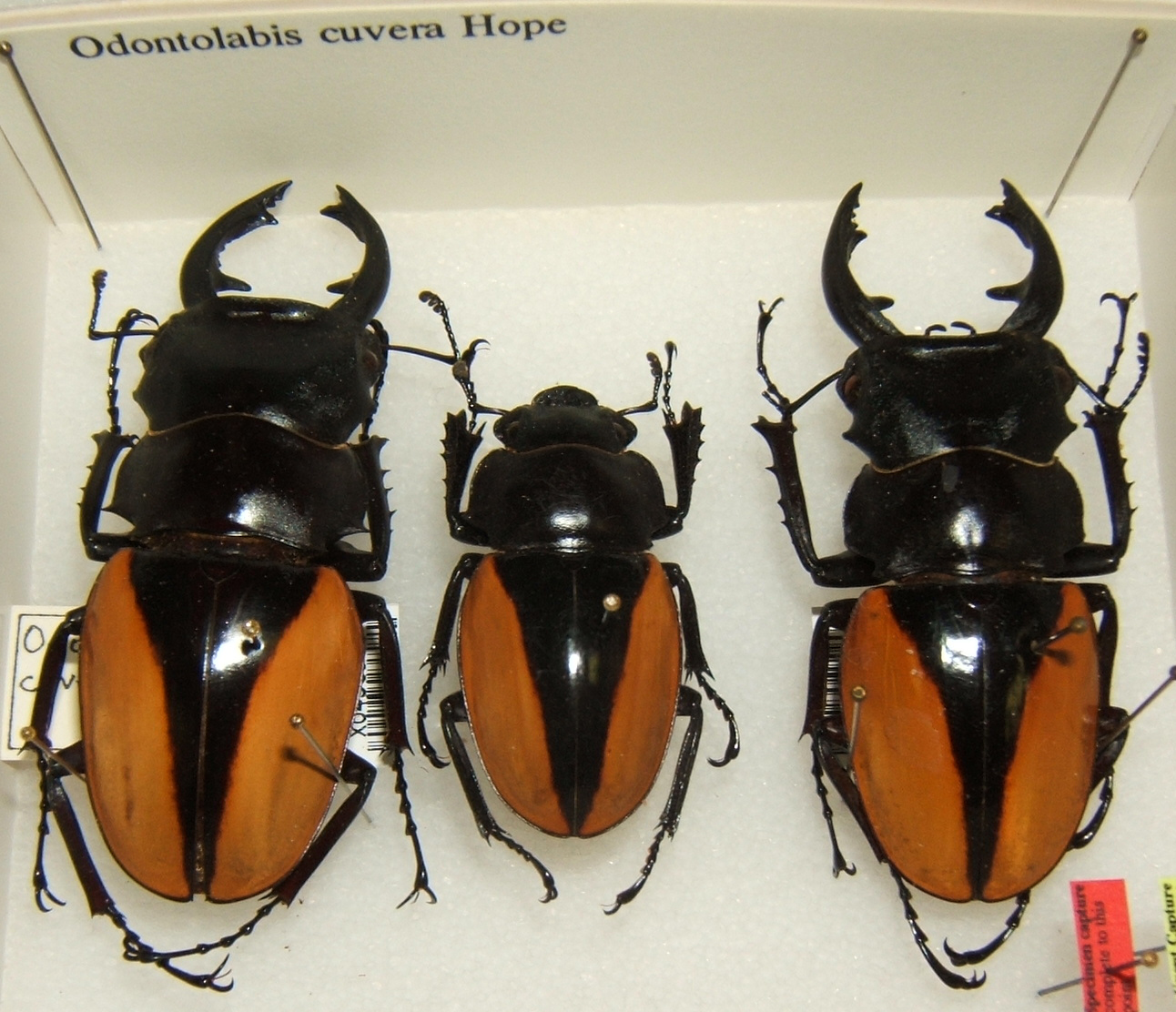 Odontolabis cuvera adult taken by Shawn Hanrahan at the Texas A&M University Insect Collection in College Station, Texas.